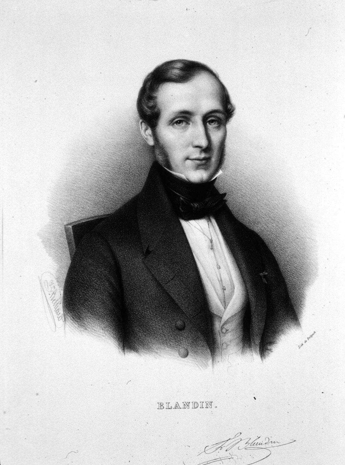 Philippe-Frédéric Blandin, French physician/surgeon.